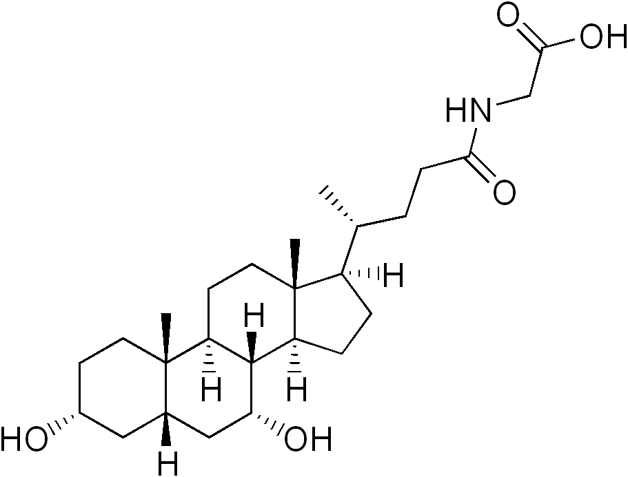 chemical structure of glycochenodeoxycholic acid